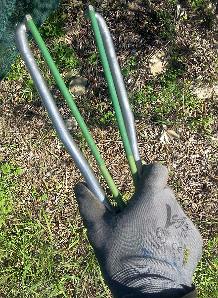 Olive harvest hand-tool